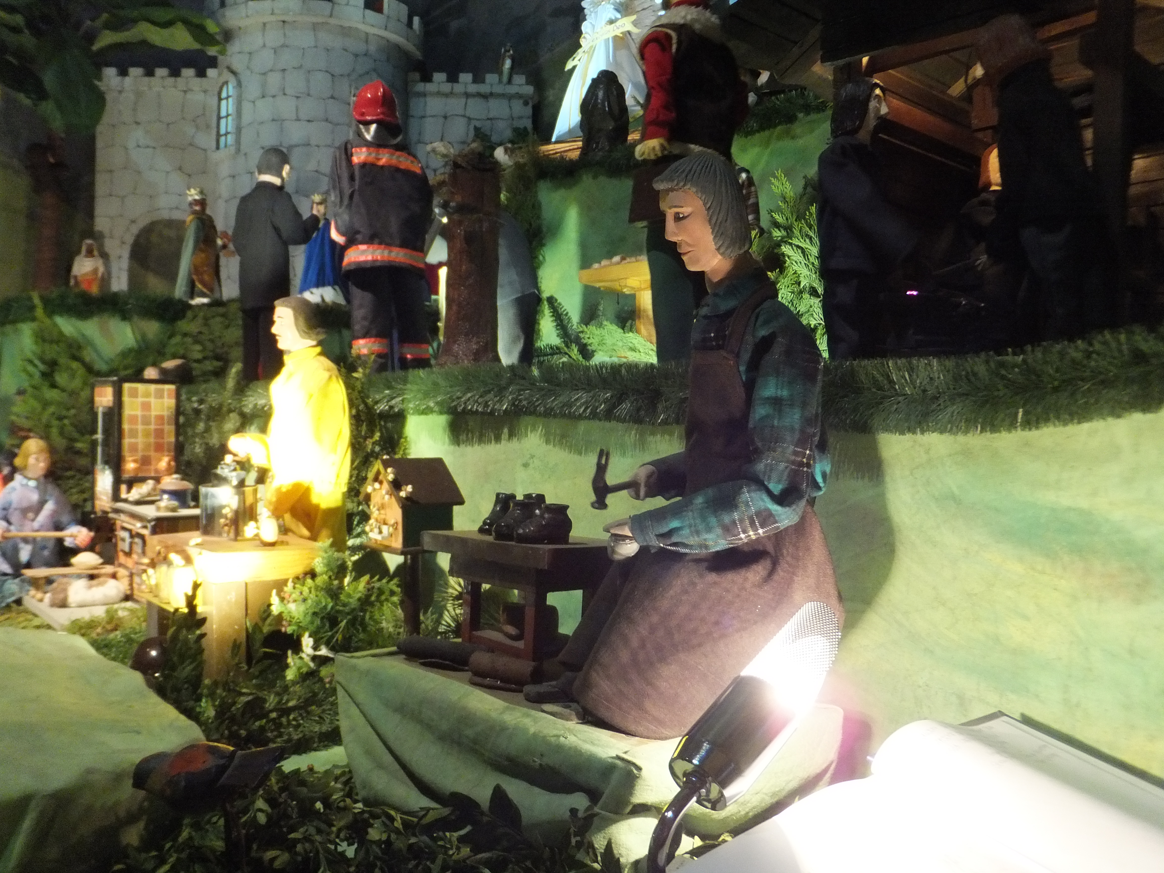 Moving crib in Saint Bartholomew church in Bieruń (Poland). Moving crib is built every year since 1955. It consists of more than 100 figures (most of the figures moving).